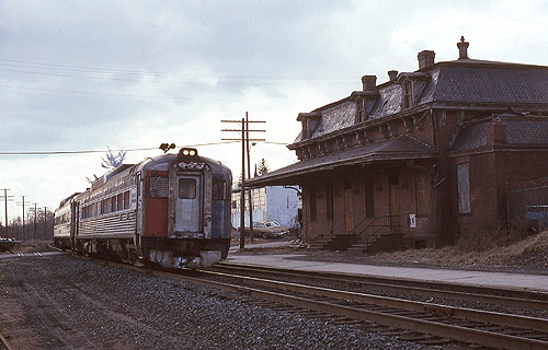 An Amtrak train at Windsor station in January 1980